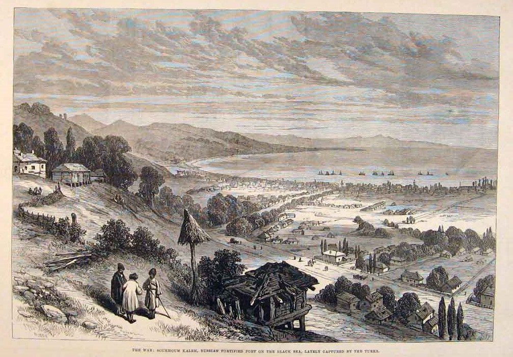 View of the Sukhumi bay - 19th century print. The title is "The War: Soukhoum Kaleh, Russian fortified fort on the black see, lately captured by the Turks"